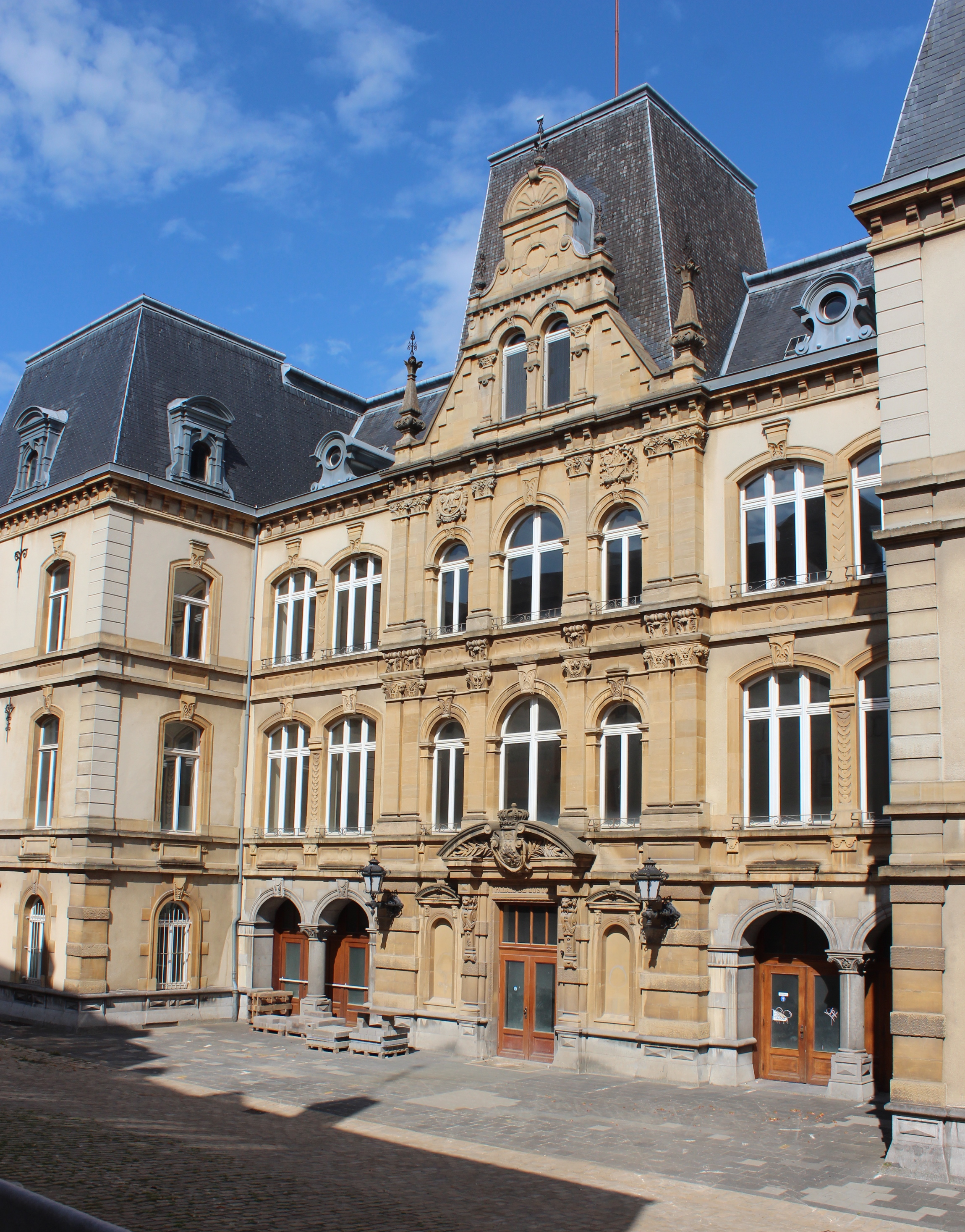 Luxembourg City: Former Palace of Justice (1795- 2008), previously (1565-1795) Gouvernor's palace. The neo-classical facade from 1886 is by State architect Charles Arendt.